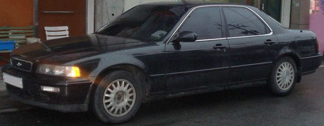 Daewoo Arcadia